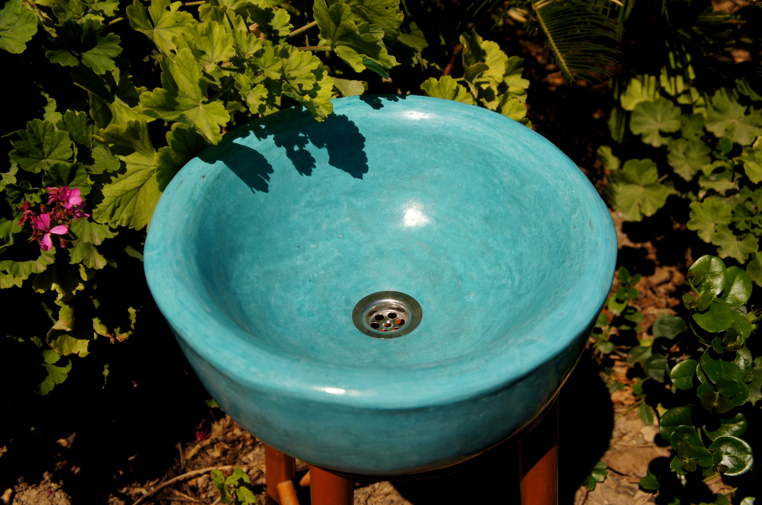 Washbasins can be created from tadelakt plaster - Project of Minoeco